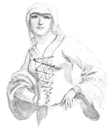 Early Medieval woman - illustration by Percy Anderson for Costume Fanciful, Historical and Theatrical, 1906